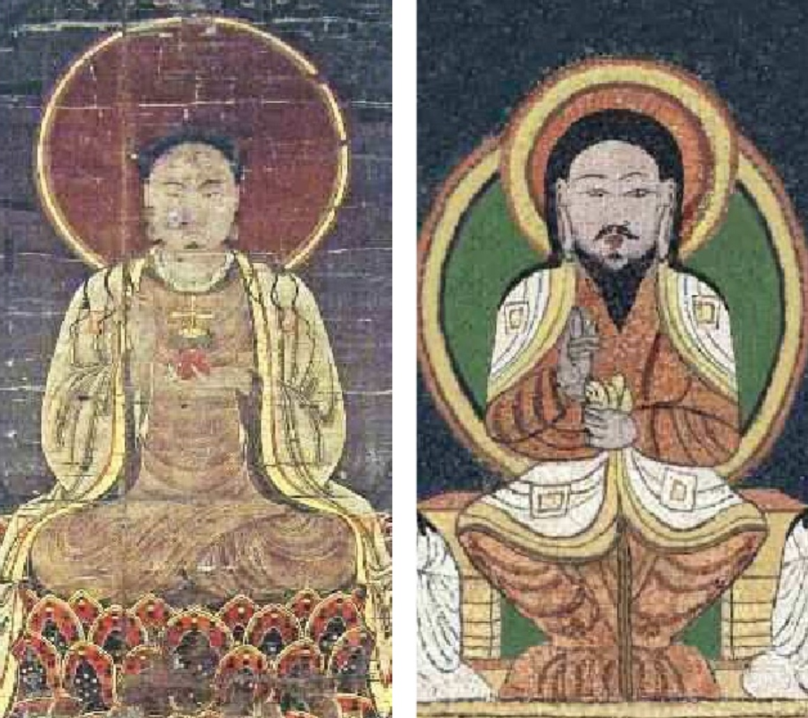 Left: Manichaean silk painting of the buddha Jesus from 13th-century southern China; right: Enthroned Jesus image on a Manichaean temple banner from c.10th-century Kocho (digital reconstruction).